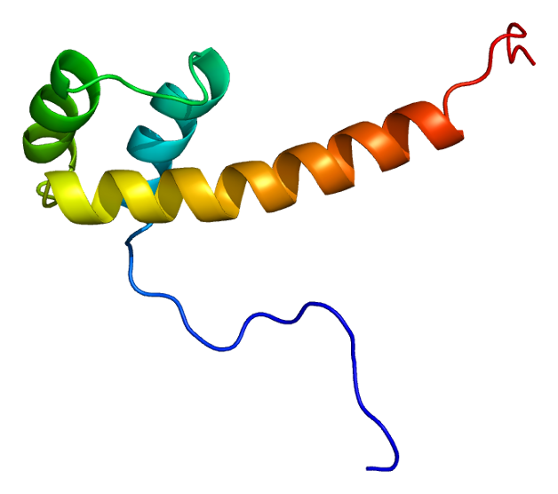 Structure of the PAX6 protein. Based on PyMOL rendering of PDB 2cue.